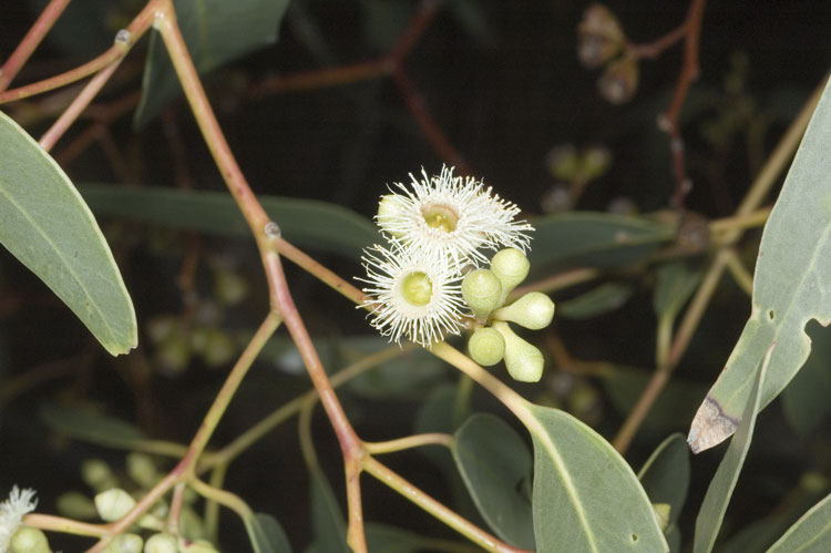 Flowers and buds of Eucalyptus fasciculosa, photographed at Coorong, near Salt Creek, South Australia